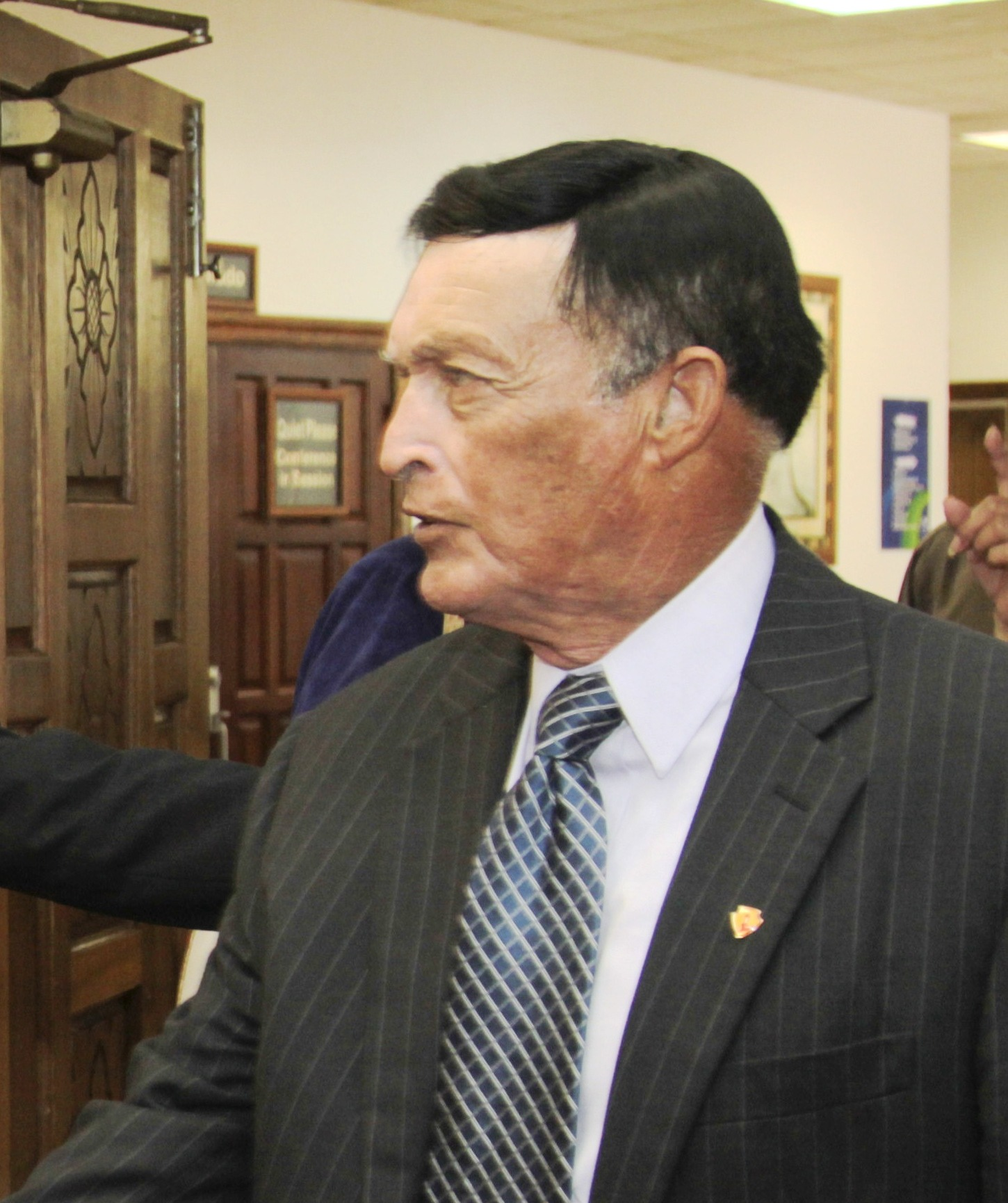 Juan Chi Chi Rodriguez, cropped from U.S. Army Col. John D. Cushman, left, commander, of U.S. Army Garrison Fort Buchanan, welcomes former top golf player, Juan Chichi Rodriguez, right, during the incoming reception, in Fort Buchanan Community Club, after the change of command ceremony, at Fort Buchanan Puerto Rico.